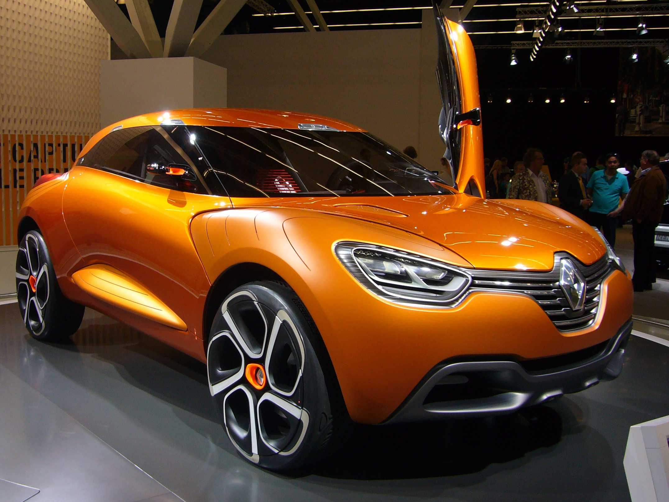 Renault Captur Concept at AutoRAI Amsterdam 2011